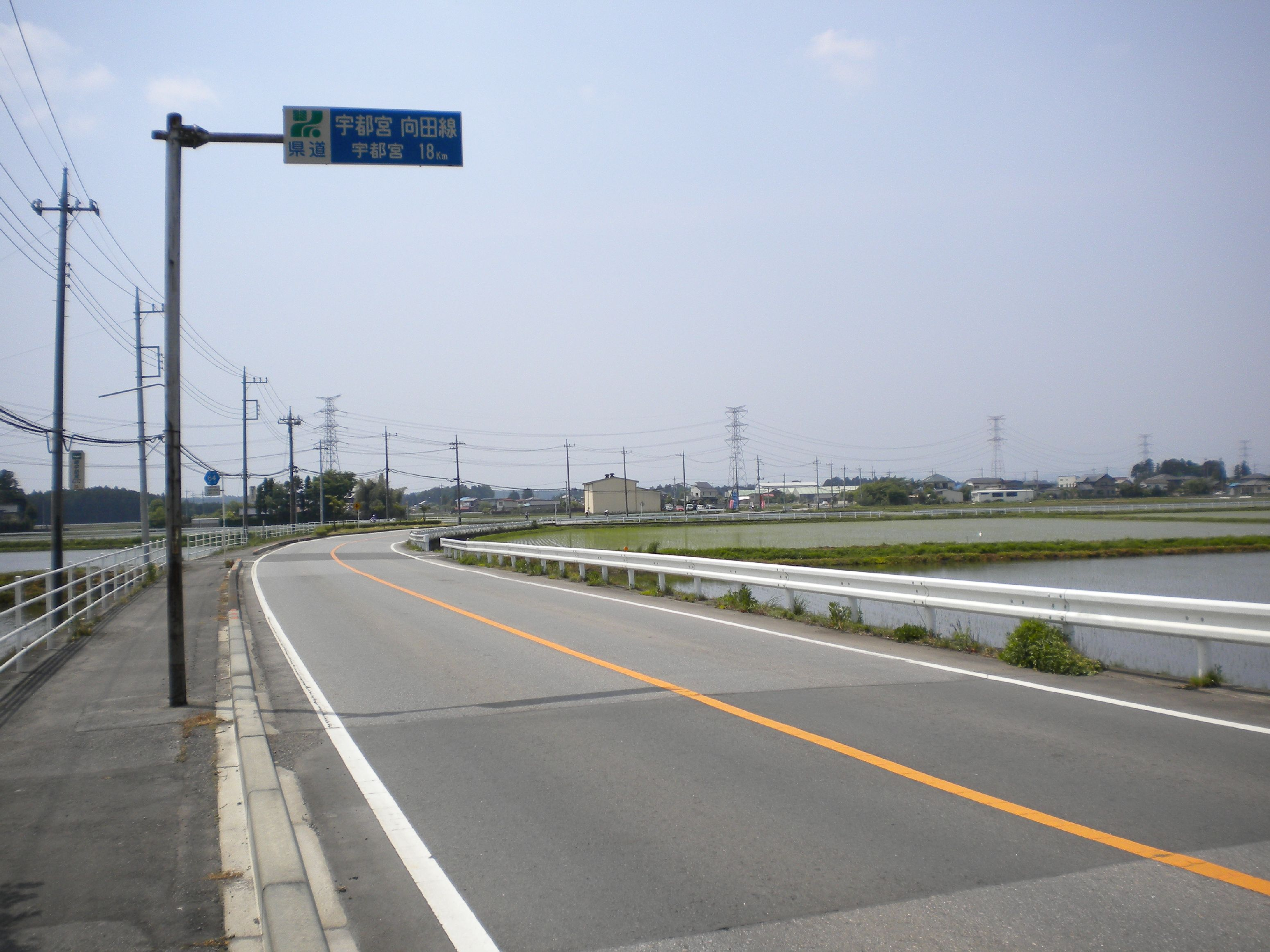 The Tochigi Prefectural Road Route 64 in Yatsuki, Haga Town